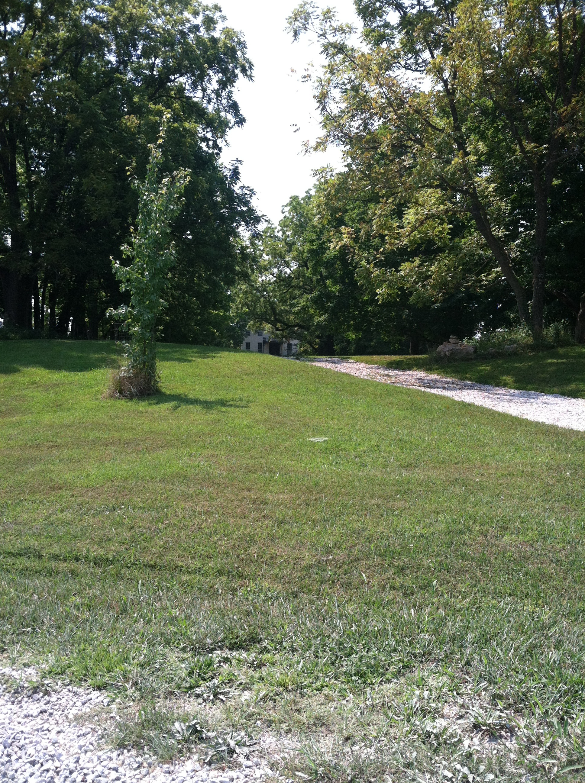 The driveway and distant view of the Moses U. Payne House near Rocheport, Missouri. Taken in August 2013.